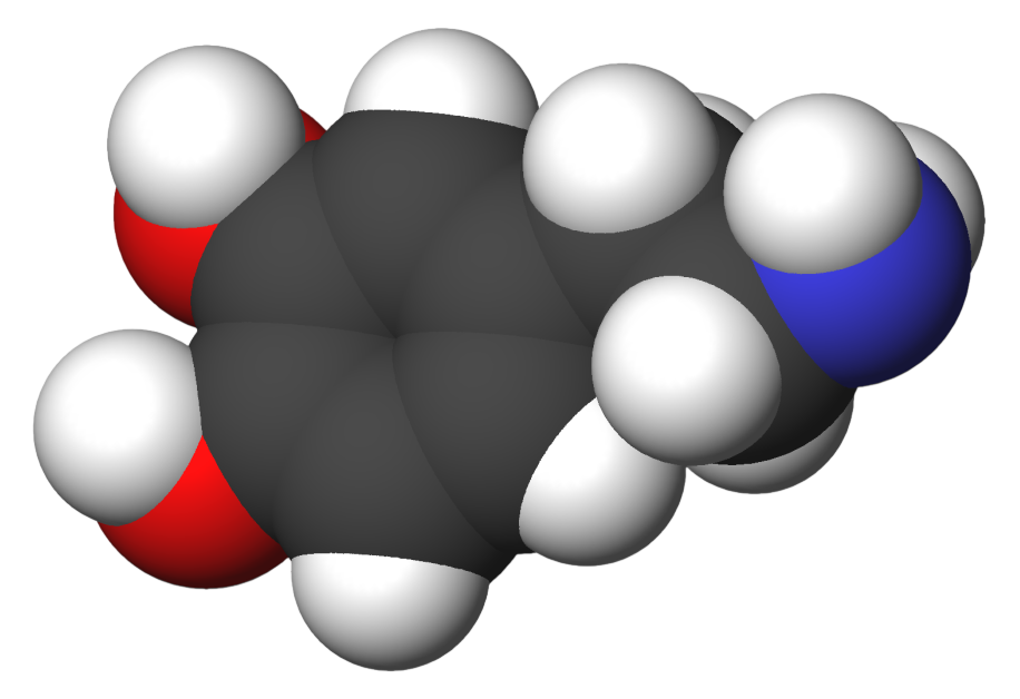 Space-filling model of dopamine molecule, a neurotransmitter that affects the brain's reward and pleasure centers. Colour code: Carbon, C: black Hydrogen, H: white Oxygen, O: red Nitrogen, N: blue